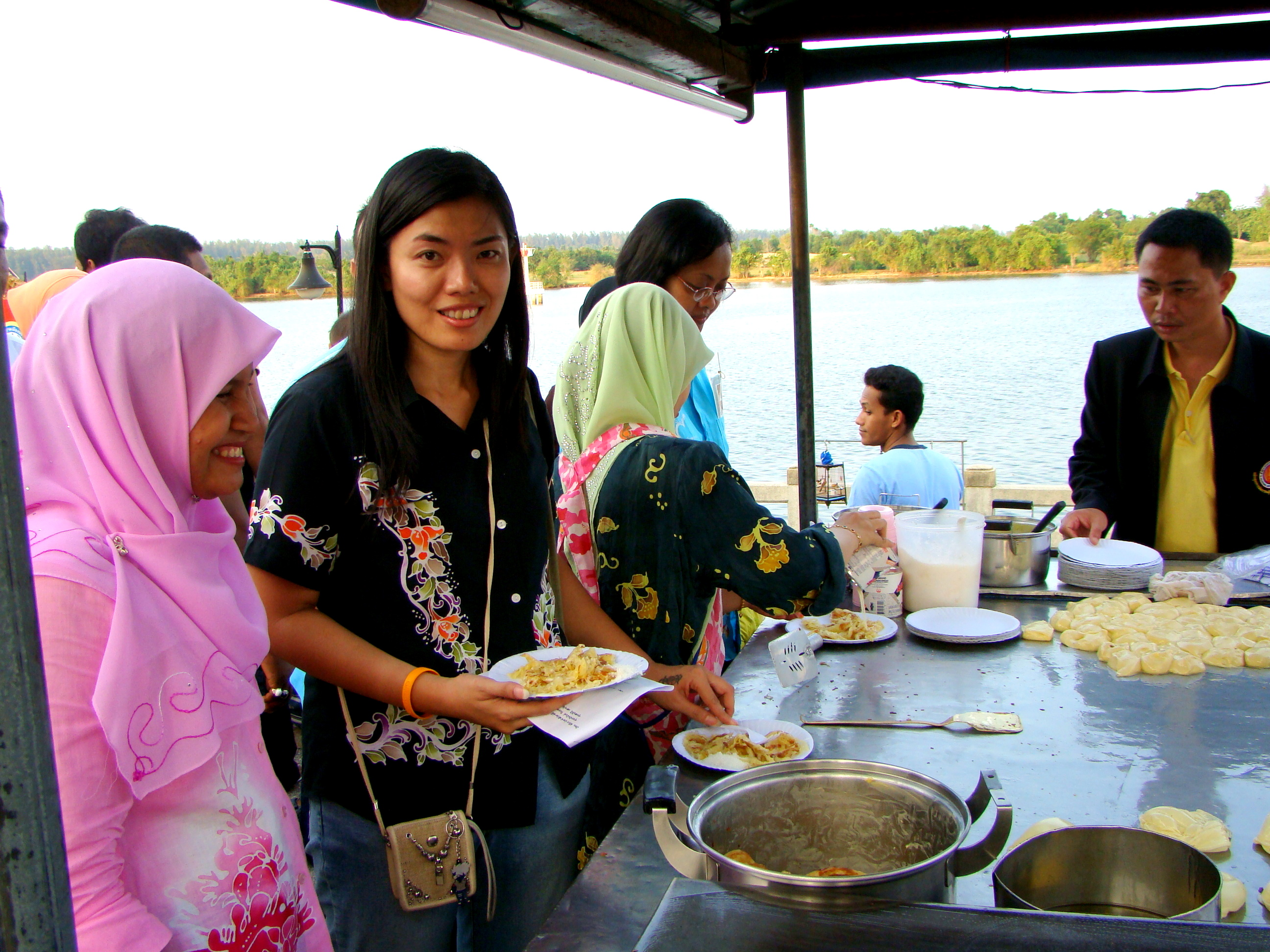 FM.105 event, Yala, Thailand. This picture features several Malay Muslims.